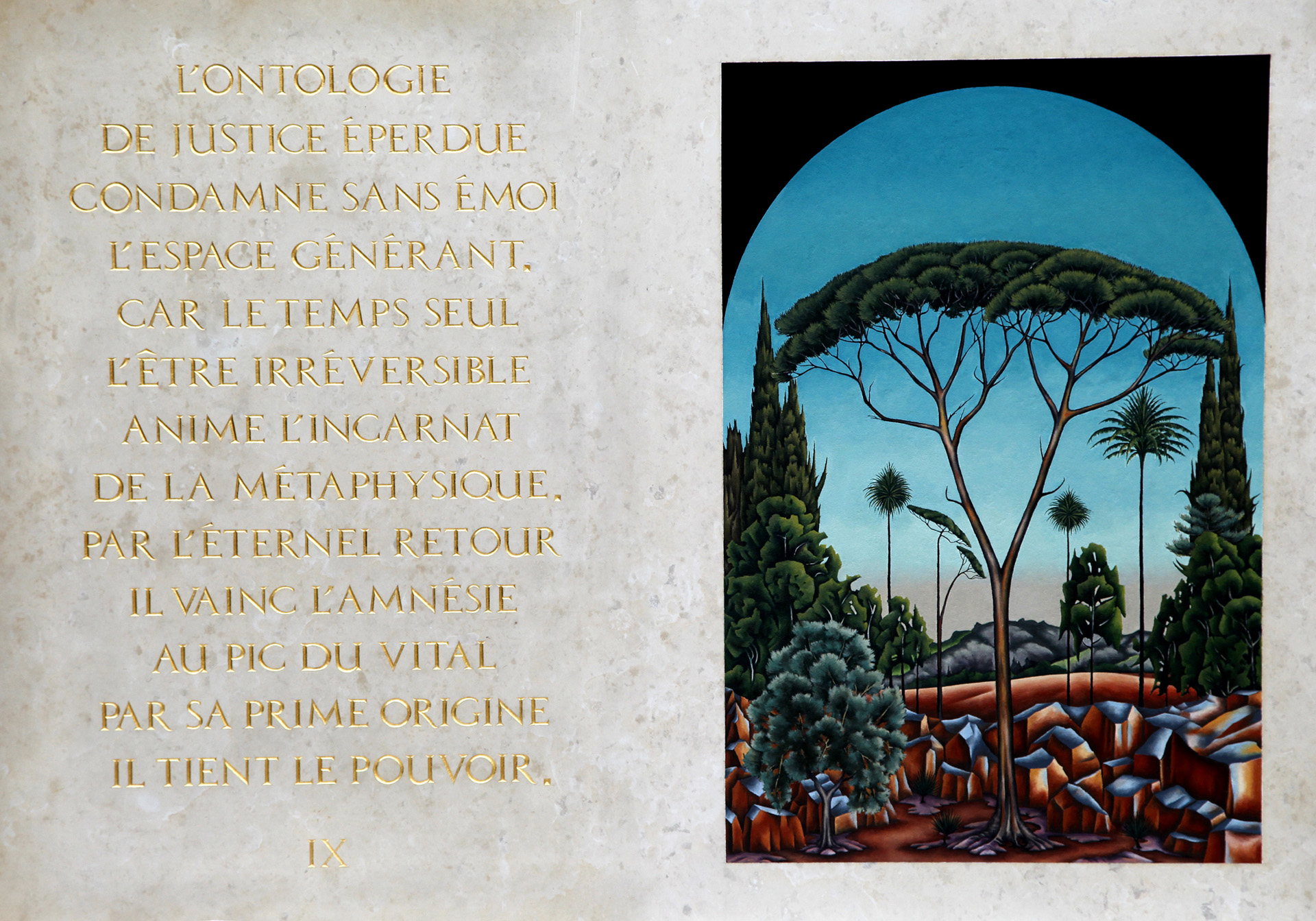 Page 9/10 of the Delta Book by Gabriel Méxène. Book engraved, painted and gilded in Tavel marble. Collection of the citadel museums in Villefranche-sur-Mer